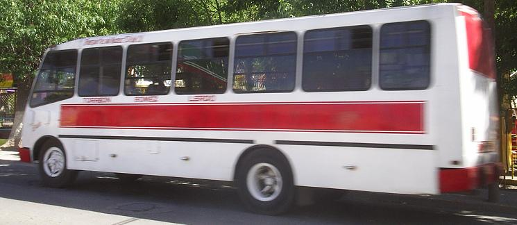 A Transportes del Nazas panoramic bus, now retired.